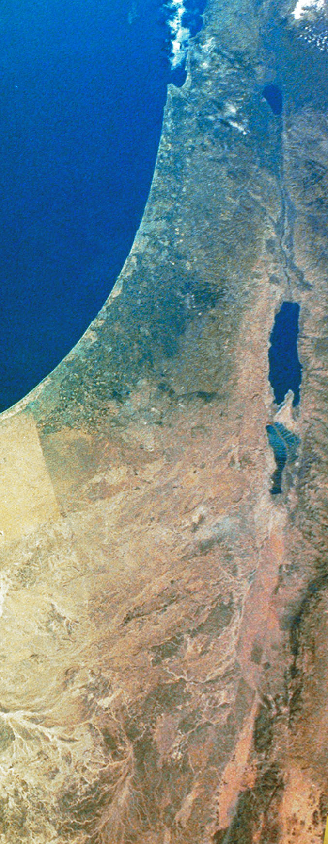 Detail view of Israel, from an photograp by an STS-107 crewmember onboard the Space Shuttle Columbia. EDITOR’S NOTE: On February 1, 2003, the seven crewmembers were lost with the Space Shuttle Columbia over North Texas. The source picture was on a roll of unprocessed film later recovered by searchers from the debris.